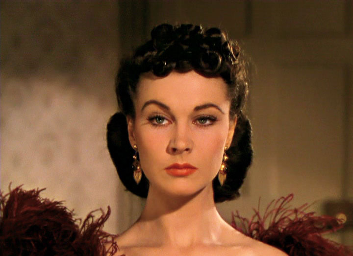 Cropped screenshot of Vivien Leigh from the trailer for the film Gone with the Wind